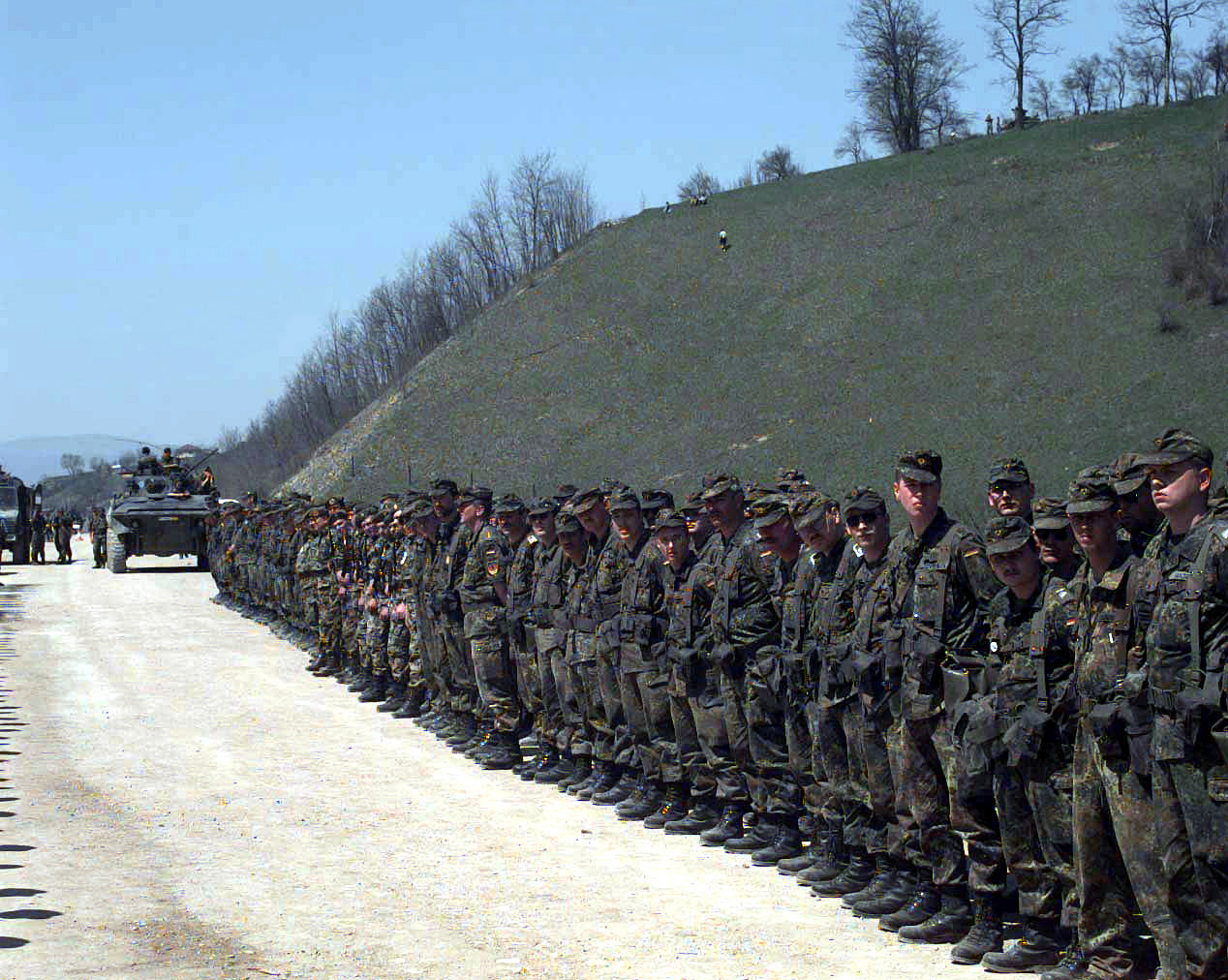 An audience of soldiers and media line the street in the afternoon of the 21st of April, 1996, in the small town of Visoko, Bosnia, to hear Lieutenant Colonel Weigold, a German Army Engineer, speak to them concerning the opening of the Visoko Bridge. The Visoko Bridge was rebuilt by German and Romanian Army Engineers during the months of March and April, 1996. Before the rebuilding of the bridge, the surrounding area had to be cleared of mines that had been laid after its destruction. The old Visoko bridge was destroyed in the beginning of the confrontations between Bosnian Muslims and Bosnian Serbs.